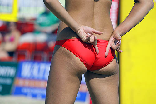 Weymouth Beach Volleyball Classic 2007